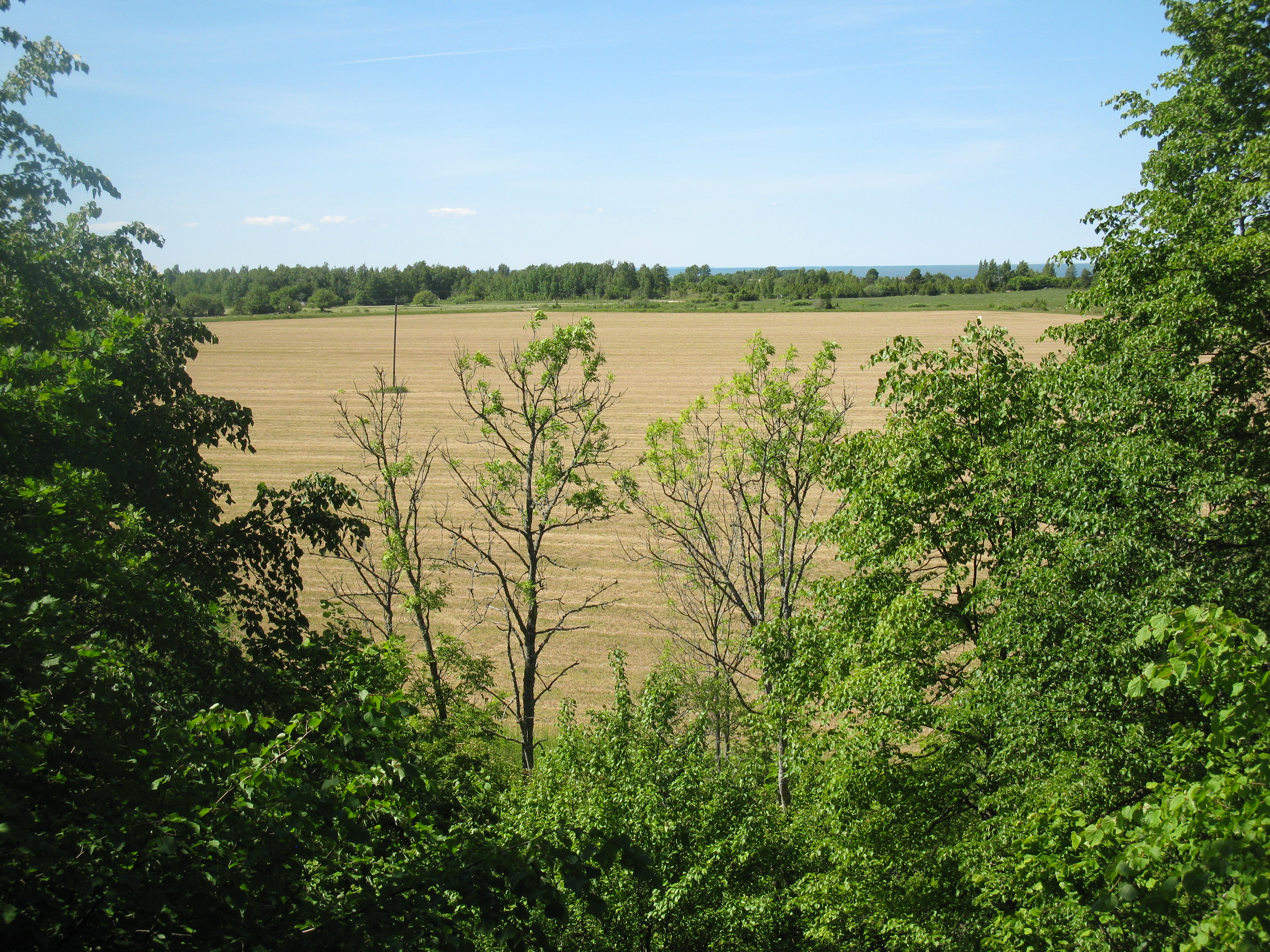 A view from Saluvere Salumägi